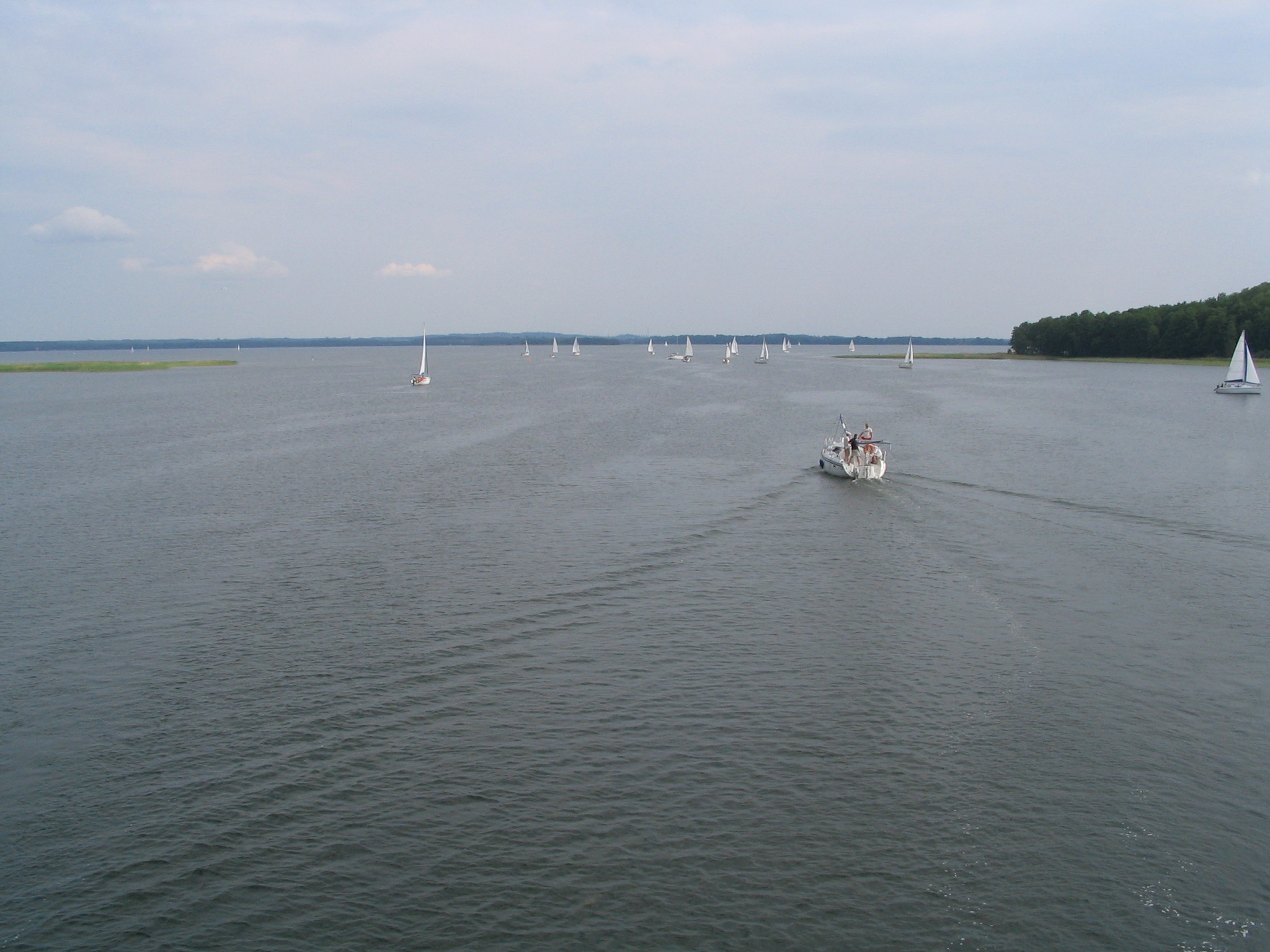 Dargin Lake Author: Piotr Tysarczyk